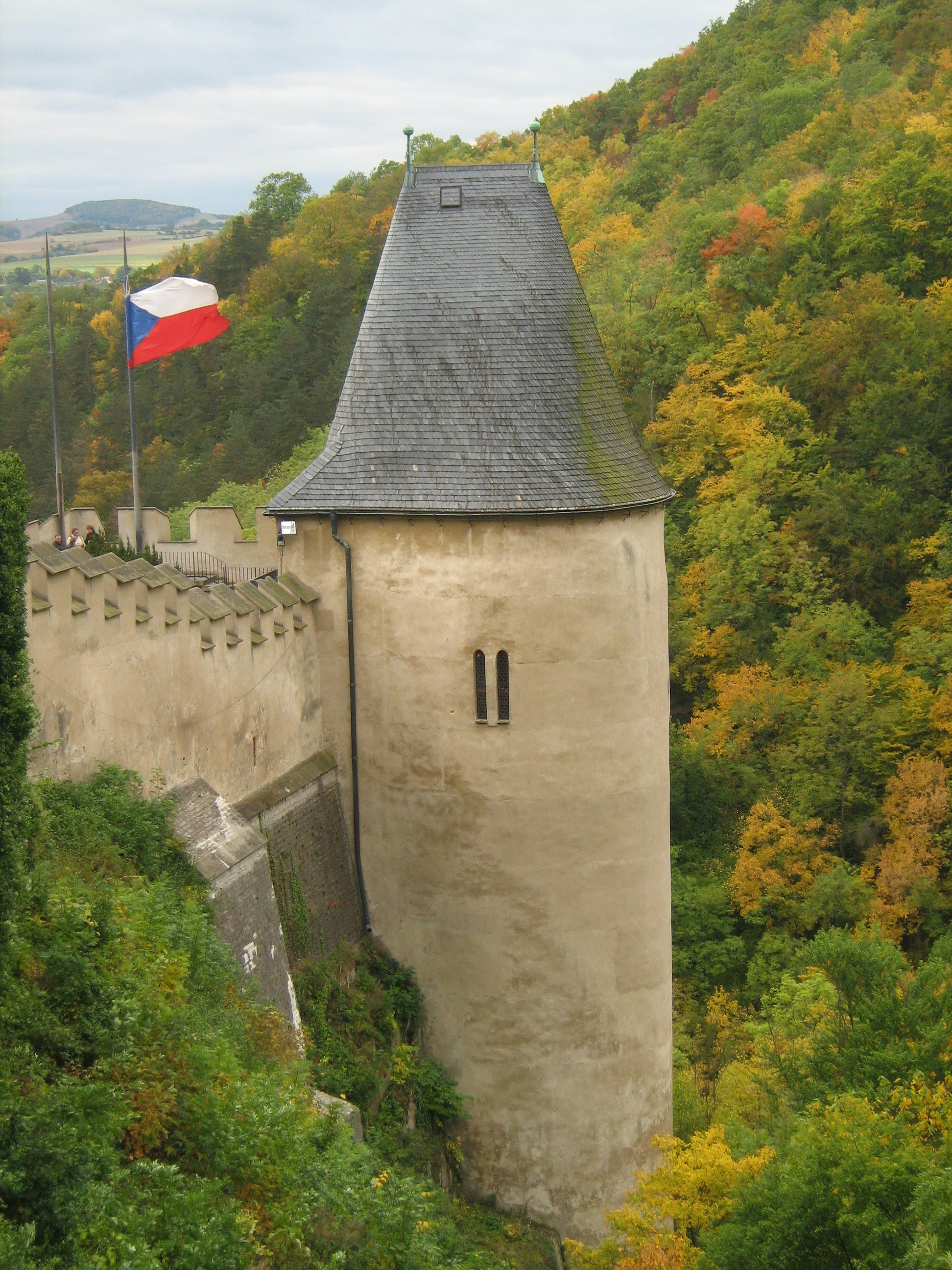 The Karlstejn Castle outside Prague. October 2008.